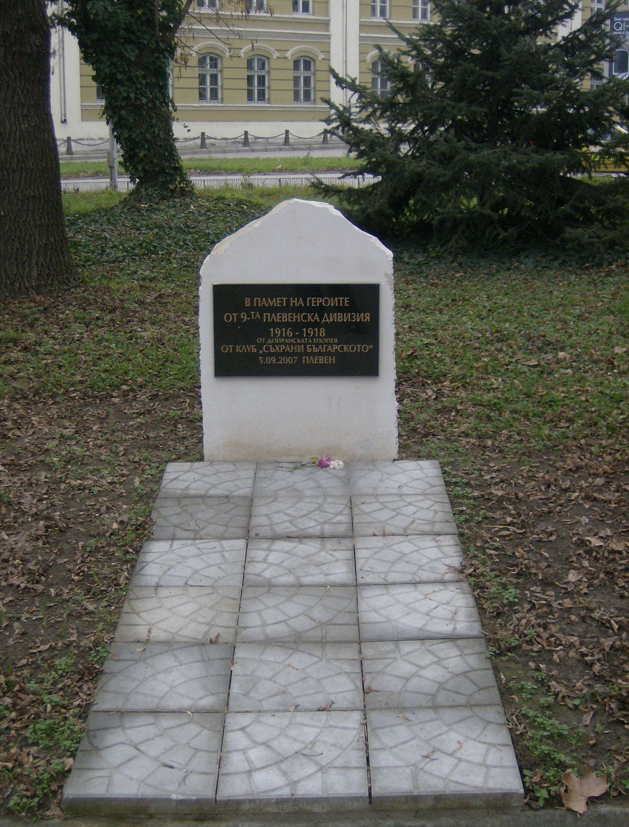 Monument 9-th Pleven division